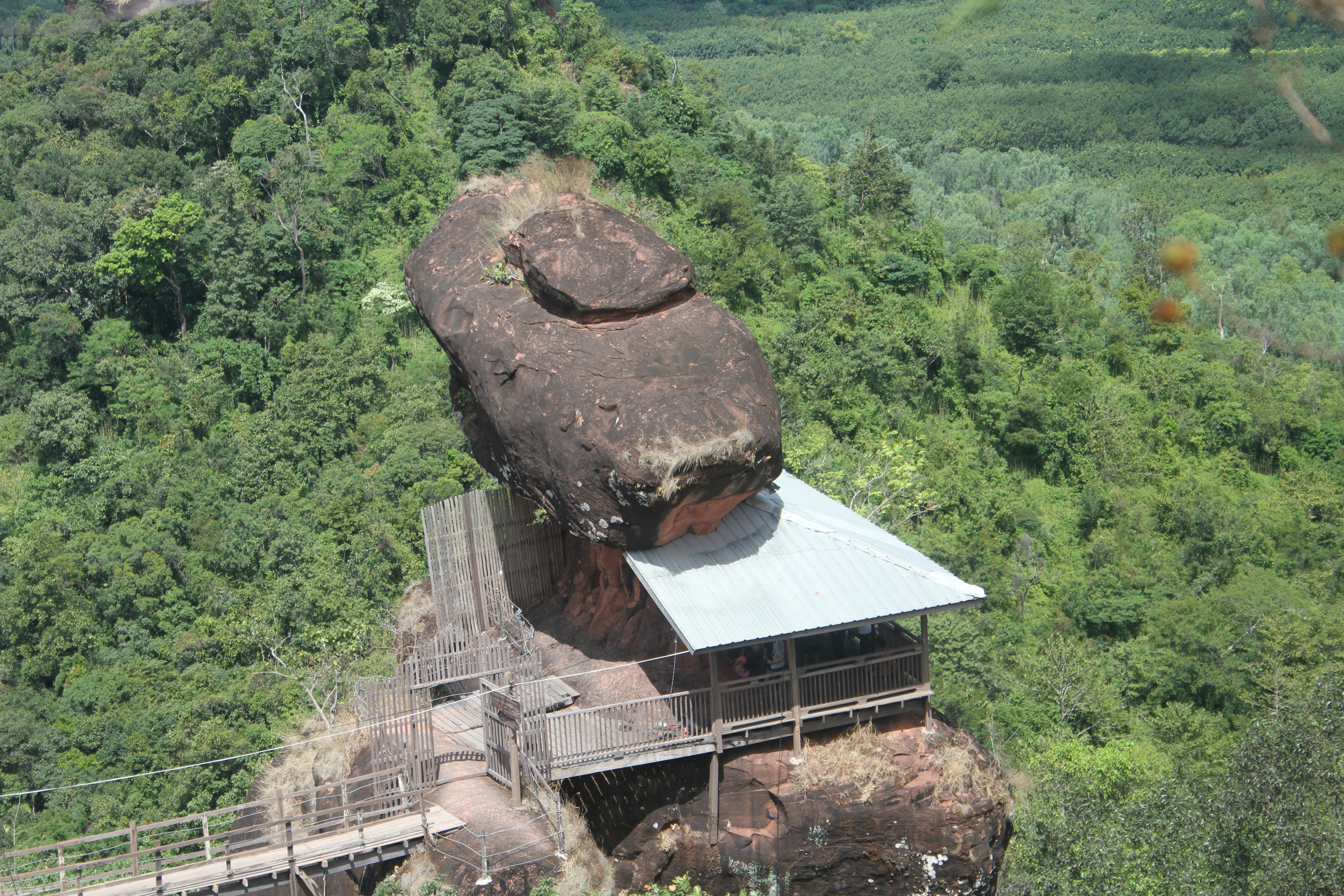 one of the view points, an old stone protect a tiny house, level 1 north direction